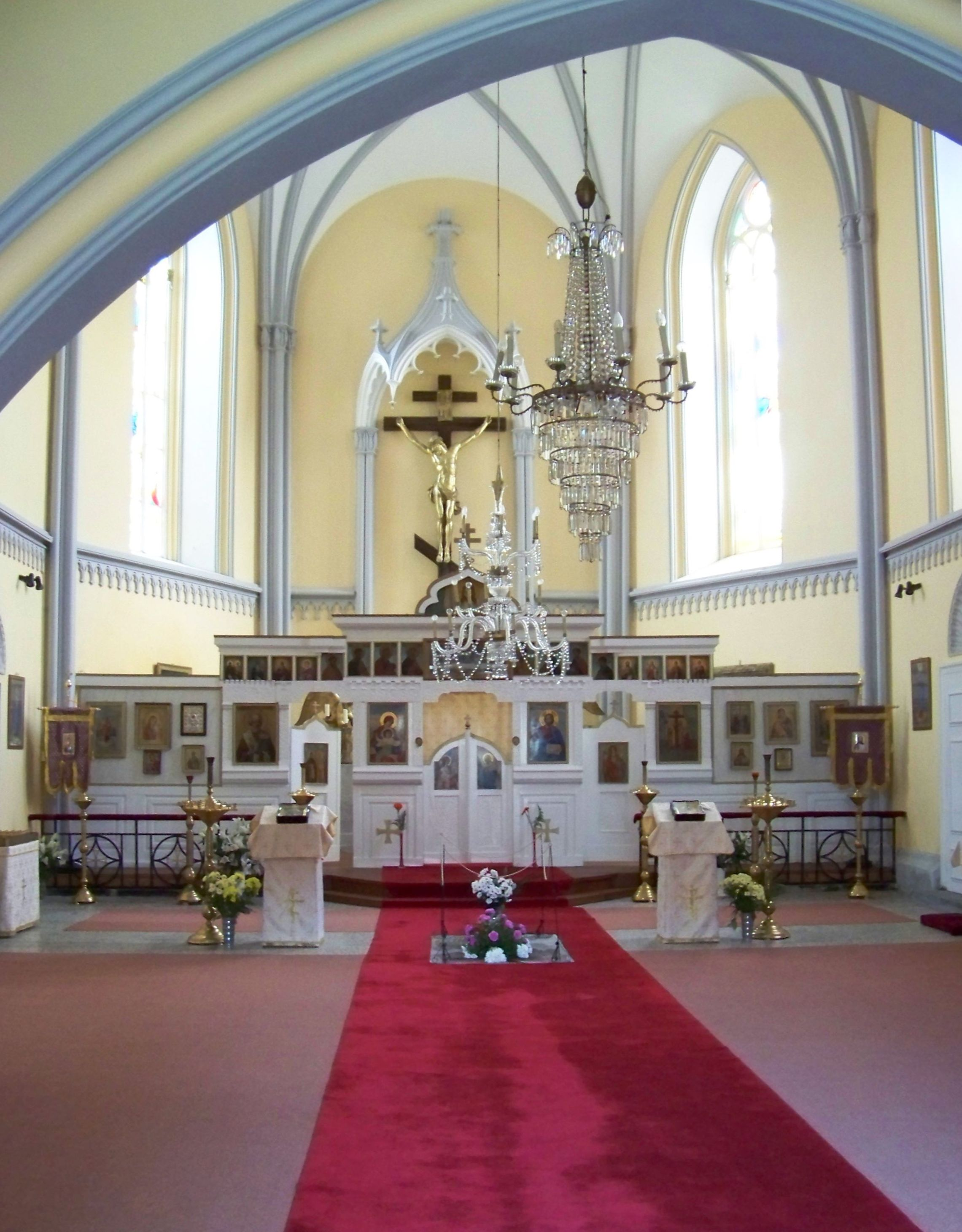 Teplice, Teplice District, Ústí nad Labem Region, the Czech Republic. Zámecké Square, Orthodox church of Exaltation of the Holy Cross. - Google Maps - Google Earth